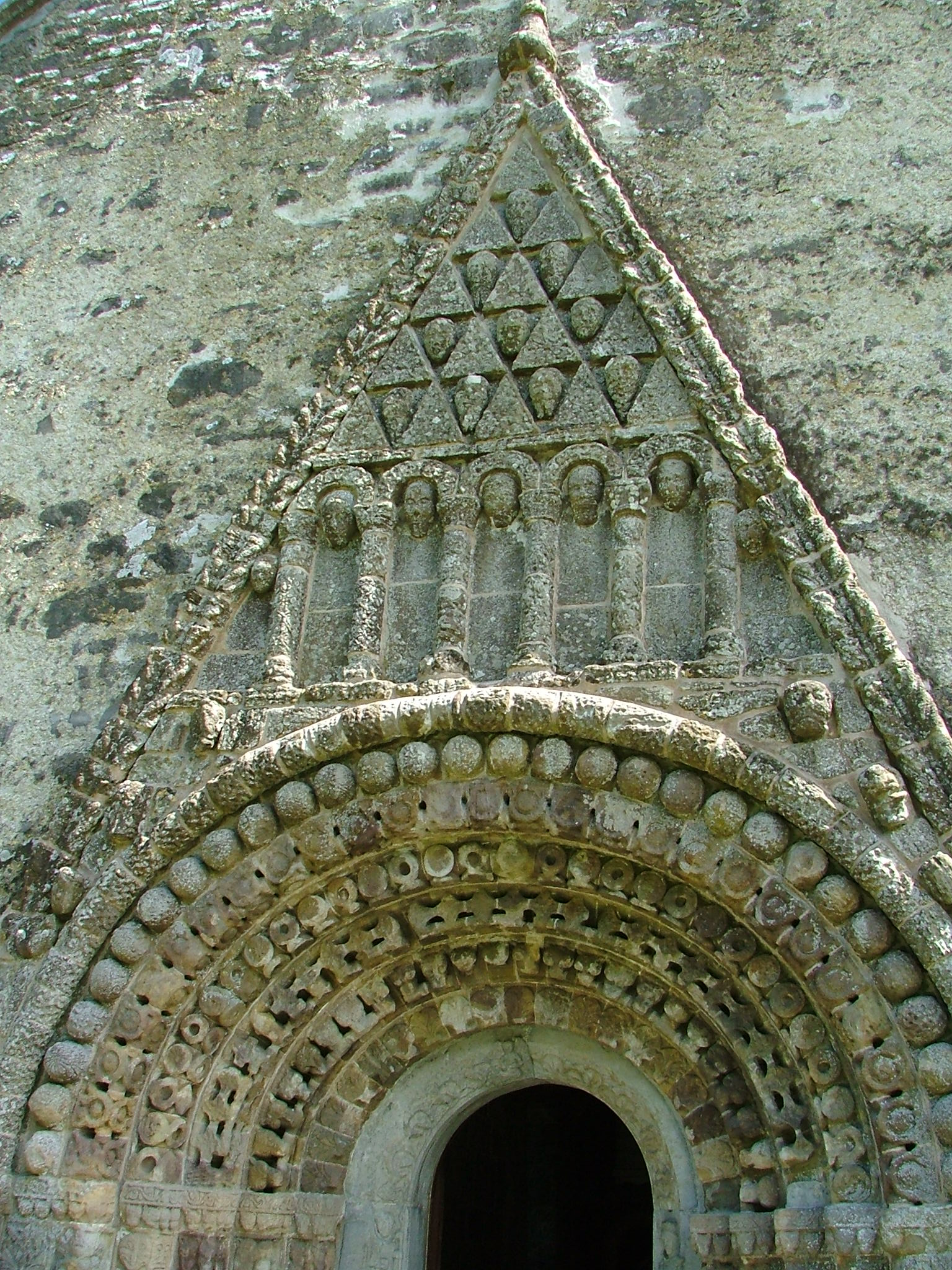 The decoration on the top of the entrance to Clonfert Catherdral, Clonfert, County Galway, Ireland.